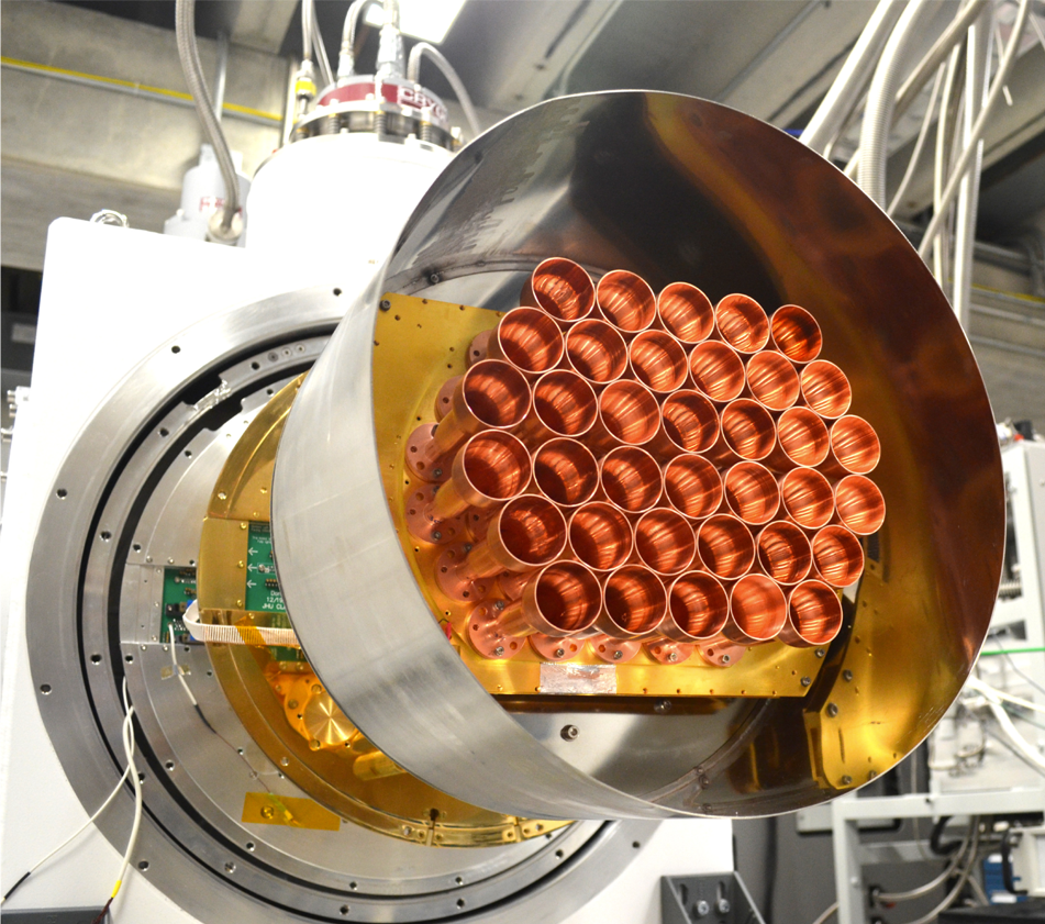 This is a photograph of the focal plane camera used by the CLASS experiment for its observations of the cosmic microwave background at a frequency around 40 GHz.